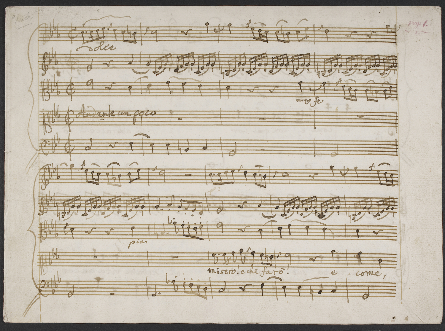 Misero e che farò from Alceste. In the composer's hand.